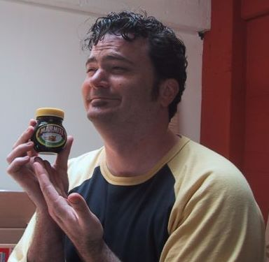 Tim Schafer at Double Fine Productions in 2001.